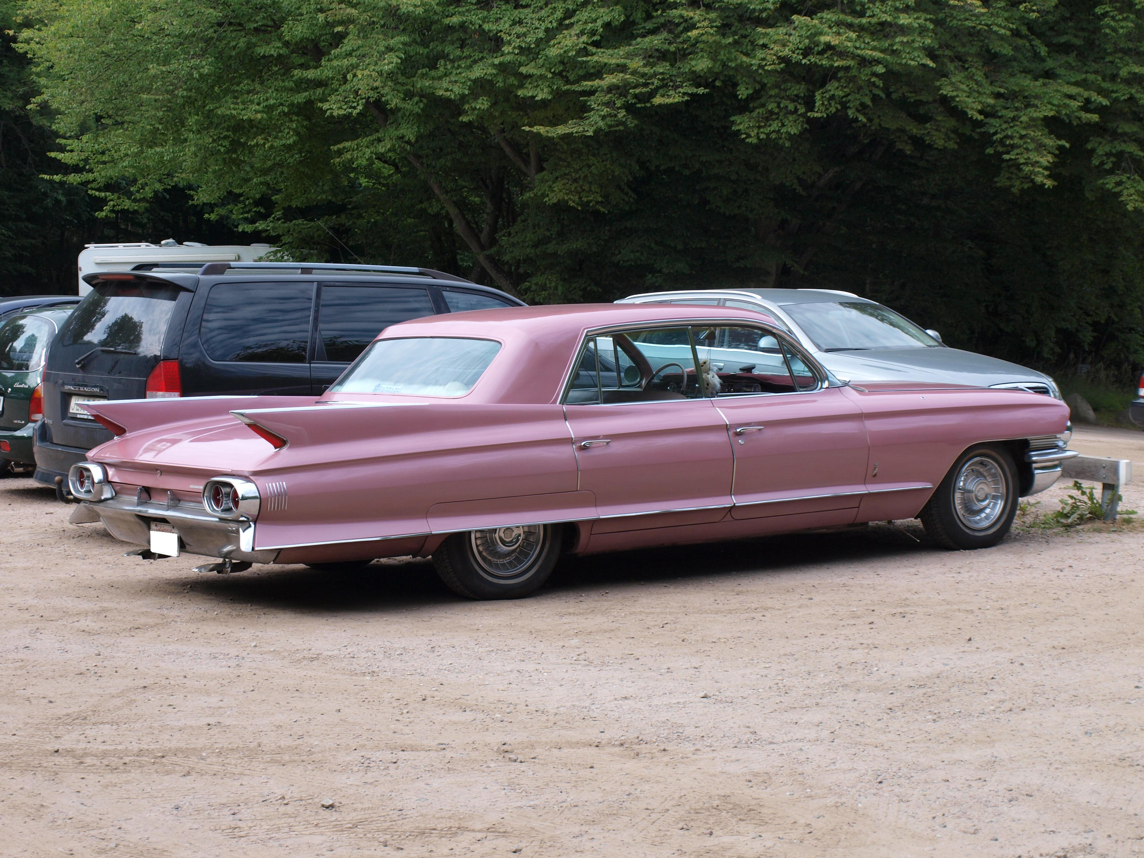 1961 Cadillac Fleetwood, in Sweden